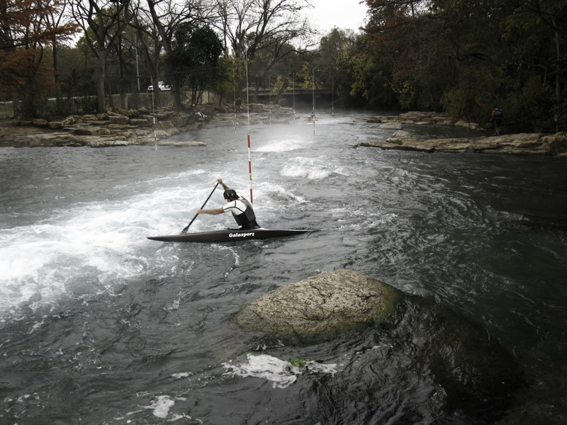 A canoeist practicing whitewater slalom on the San Marcos River in Rio Vista Park, San Marcos, Texas, USA